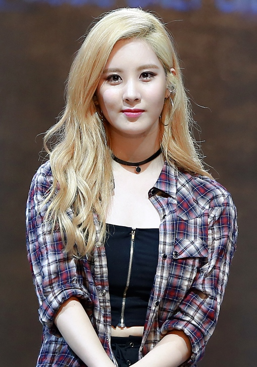 Seohyun at the Tencent K-POP LIve Music on August 31 2015.